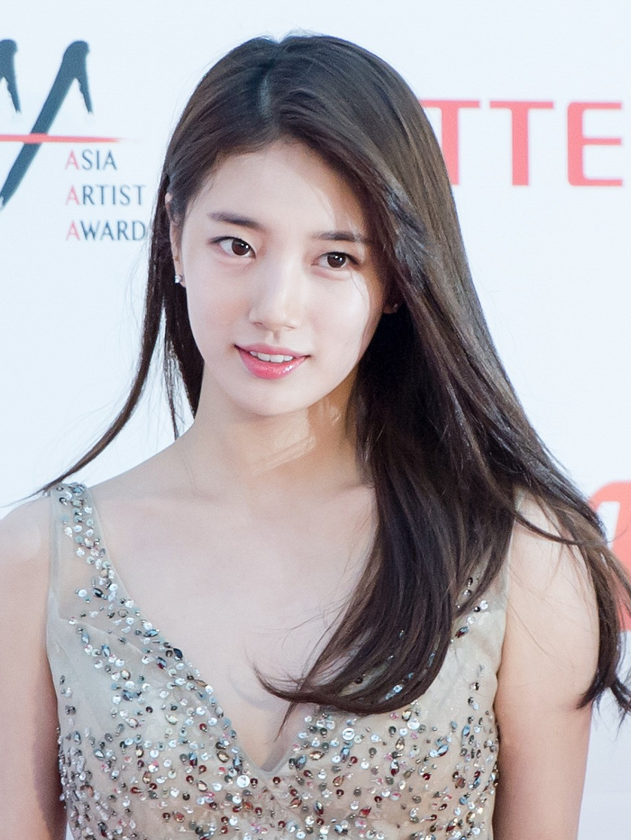 Suzy at Asia Artist Awards red carpet, 16 November 2016